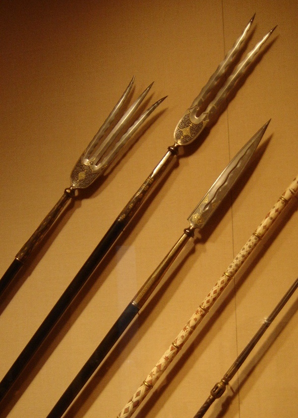 Iranian shafted weapons. 19th century. Qajar era. Steel, damascened with gold. NY Metropolitan Museum of Art.